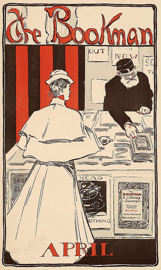 Advertisement for the New York literary journal, "The Bookman".